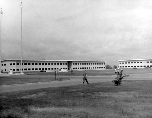 US Army Republic of Vietnam, Long Binh from Vietnam Studies Command and Control 1950-1969, Major General George S. Eckhardt, Department of the Army, Library of Congress Catalog Card Number 72-600186